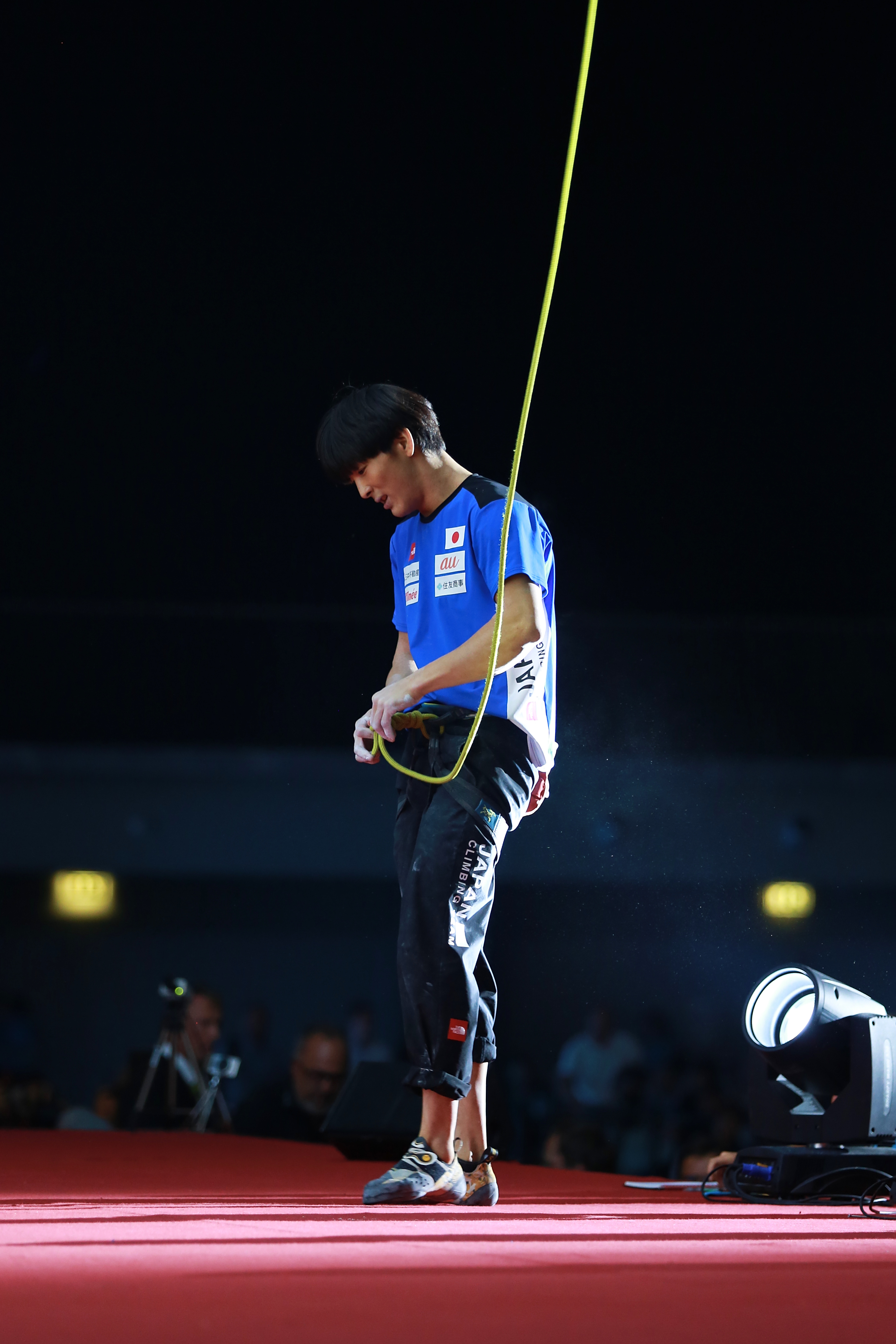 IFSC Climbing World Championships Innsbruck 2018 Final MAN lead 168 TAKATA Tomoaki JPN